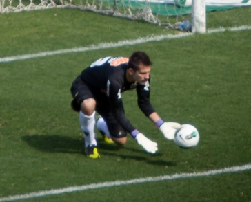 Football goalkeeper Victor playing for Atlético Mineiro in 2012.